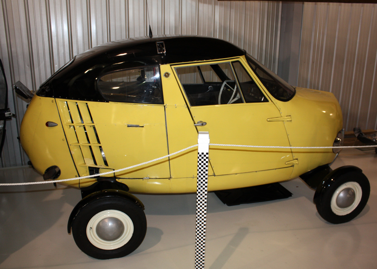 An Taylor Aerocar I, without its wings or propeller shaft attached on display at the Golden Wings Museum at the Anoka County Airport, Blane, Minnesota